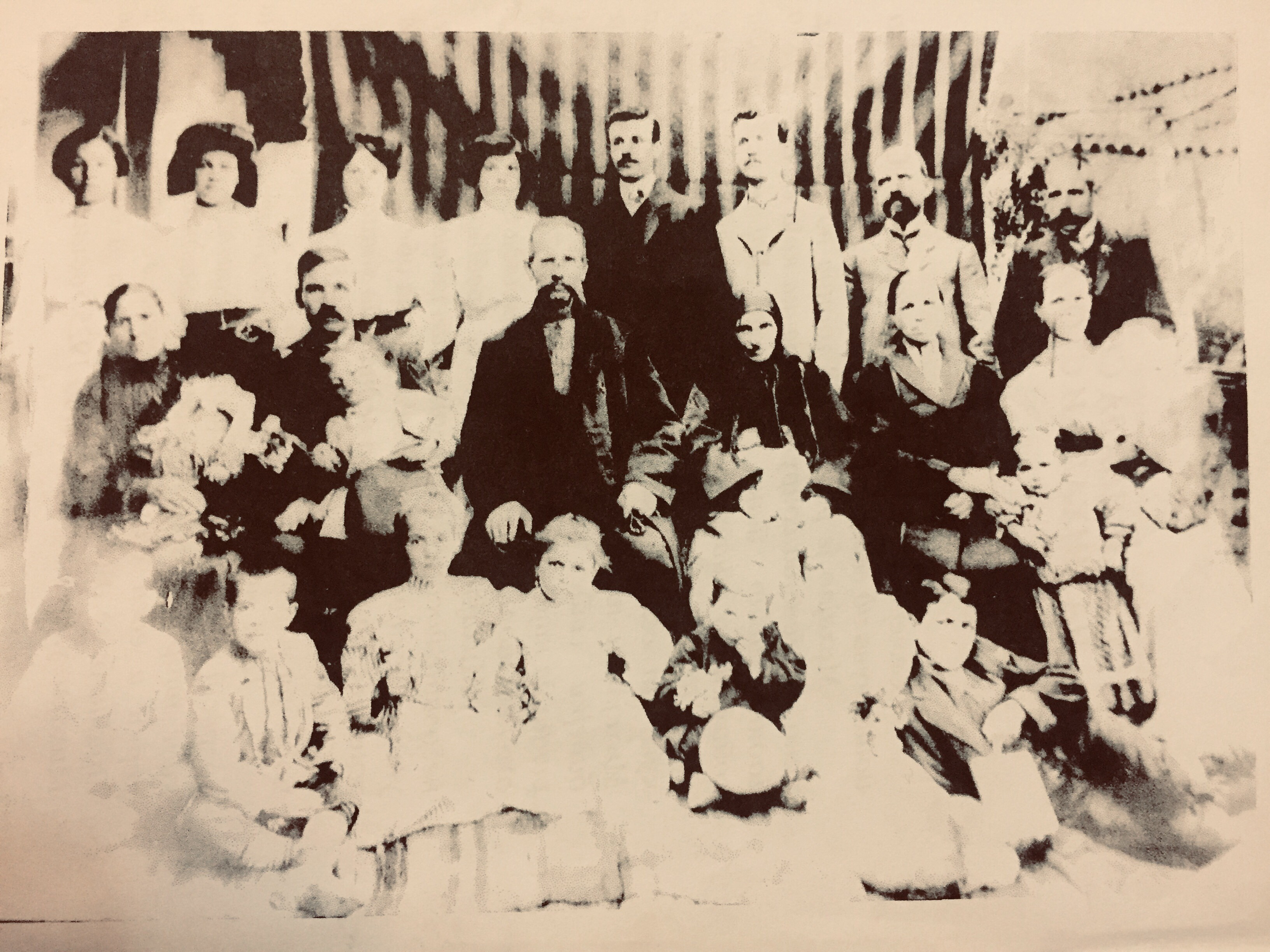 Photograph of Mihail Bajlovski and his family, taken on Easter 1910.